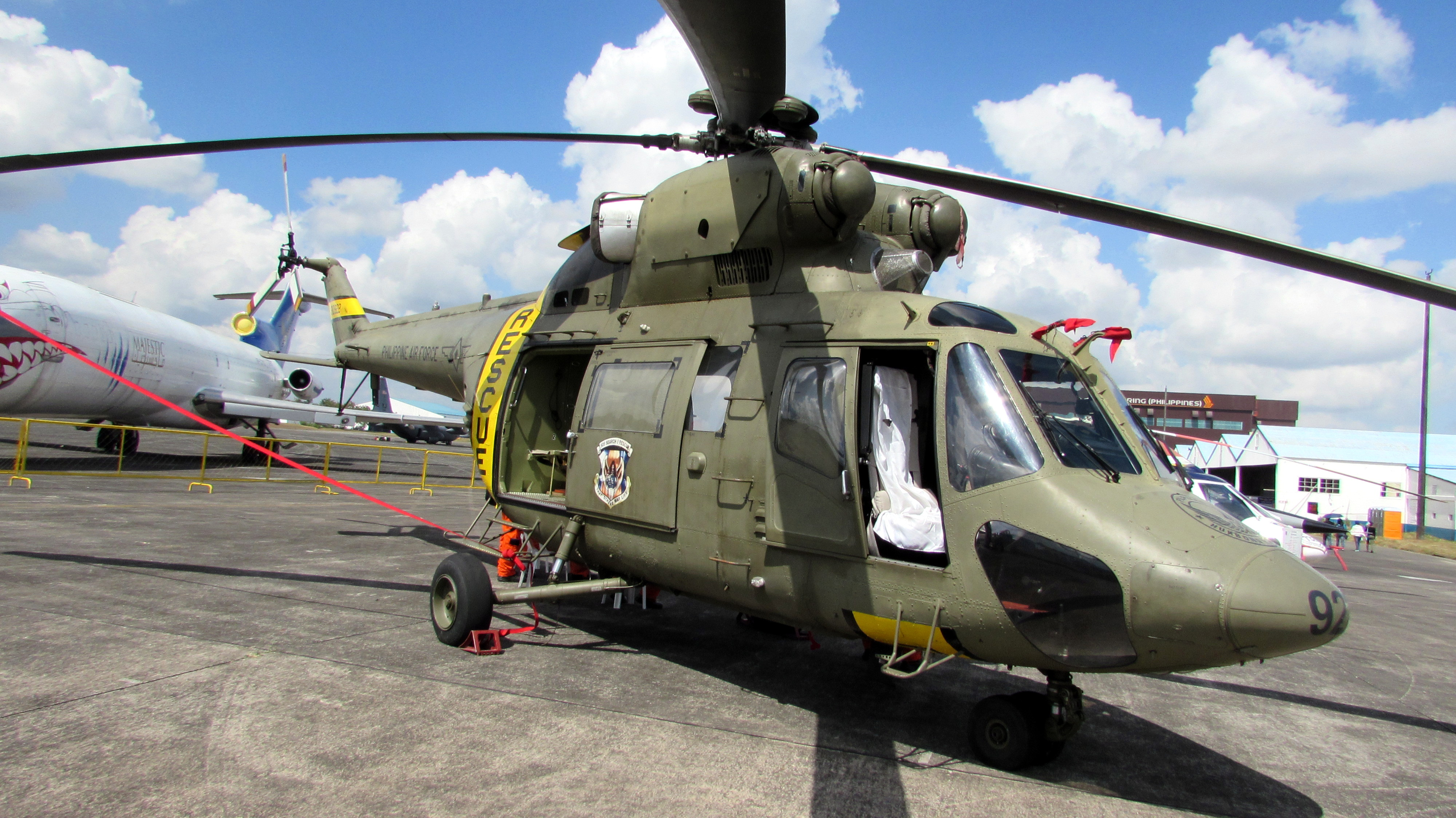 A Search and Rescue Philippine Air Force W-3 Sokol Helicopter. Photo taken during the 20th Balloon Fiesta at Clark Air Field in Pampanga.